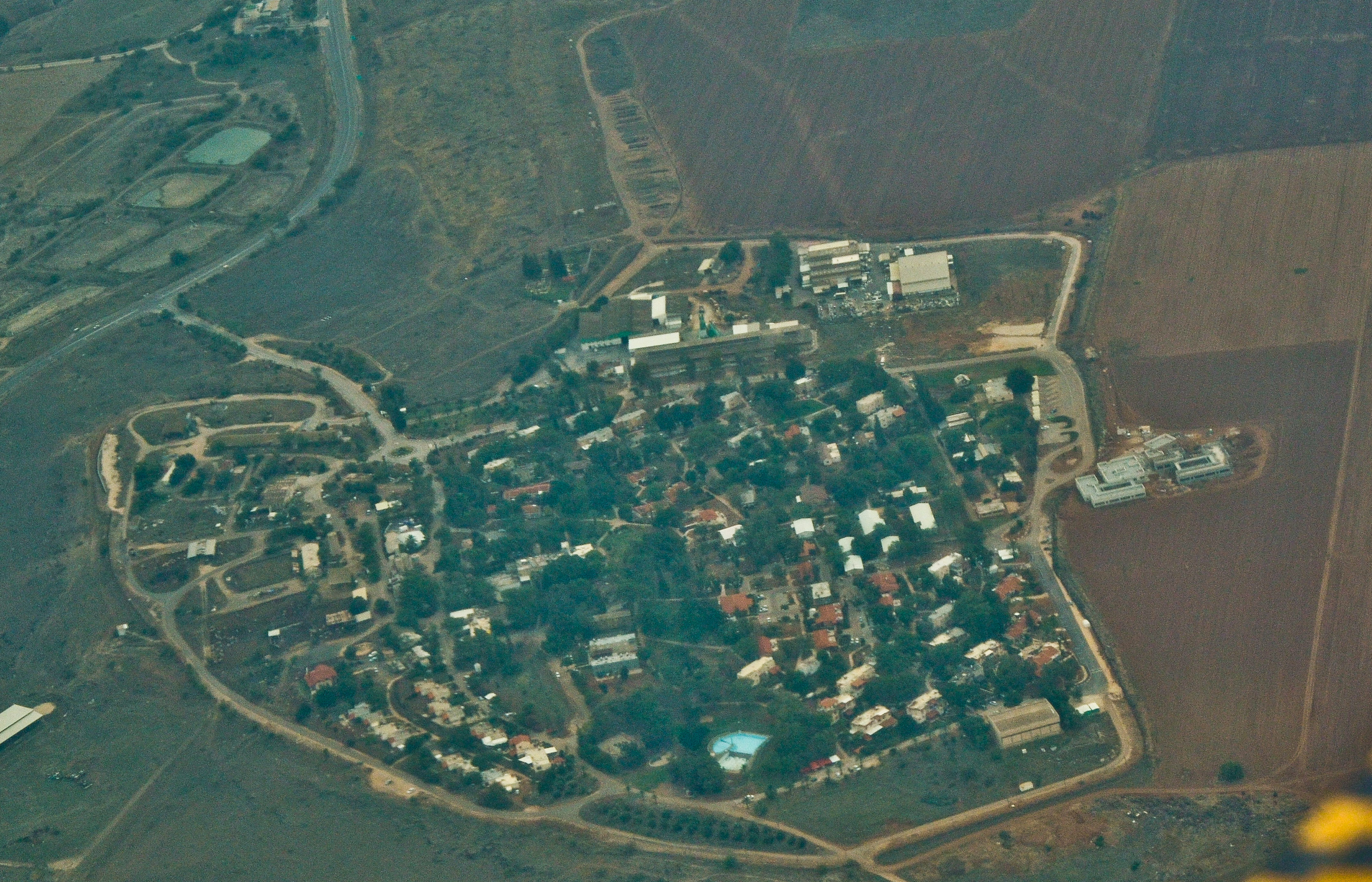 shot taken from plane flown by Ilan maytal